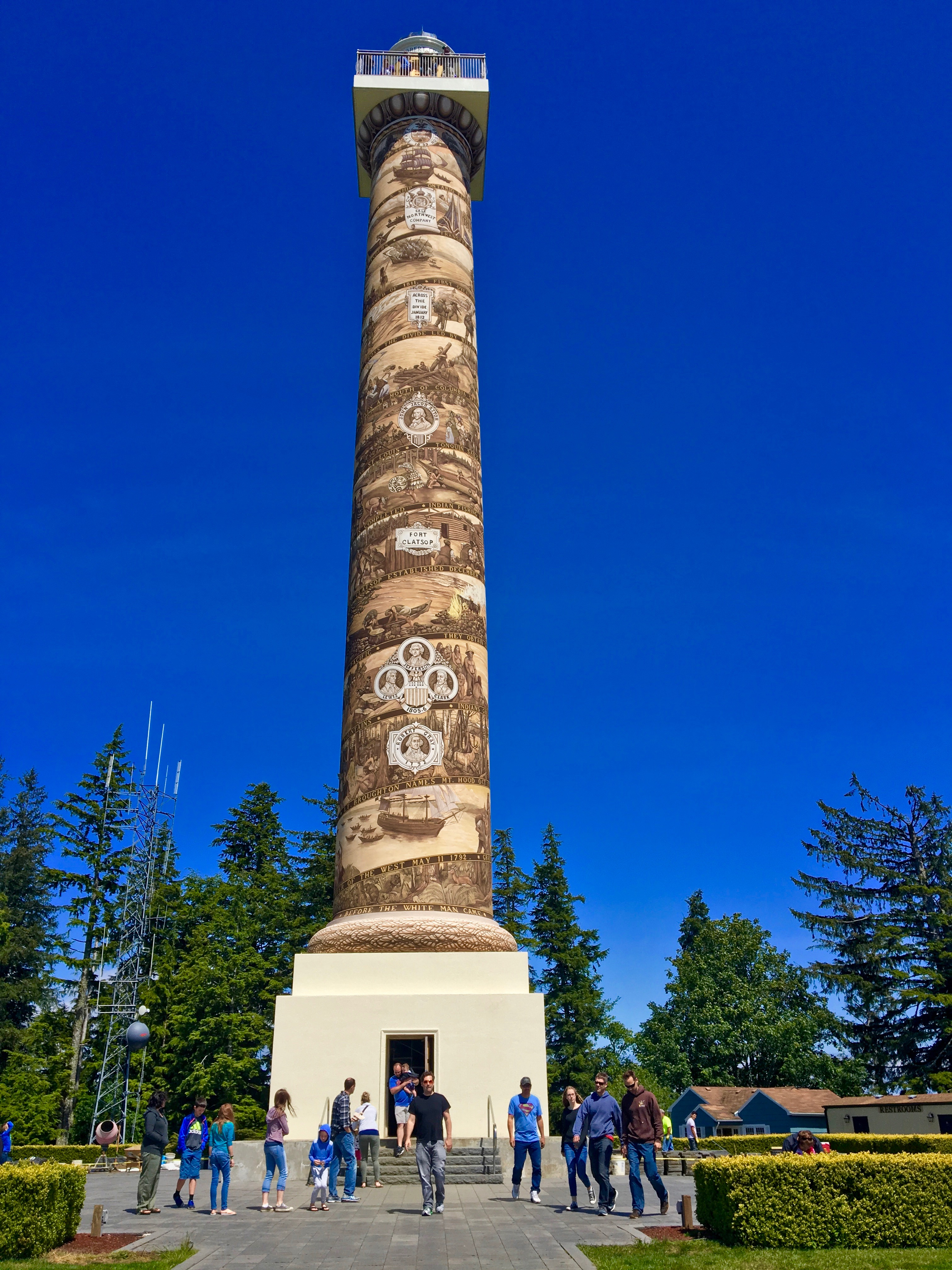 Astoria Column from base, May 2016